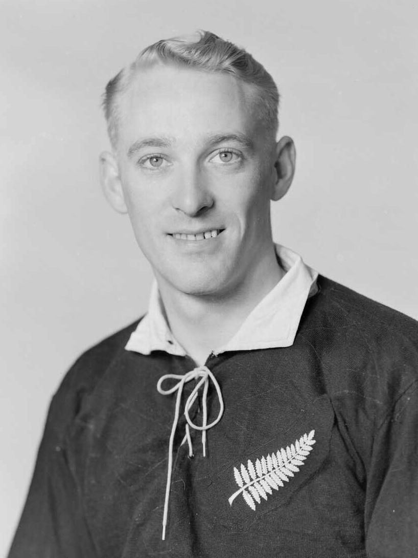 Douglas Wilson, member of 1953-1954 All Black touring team